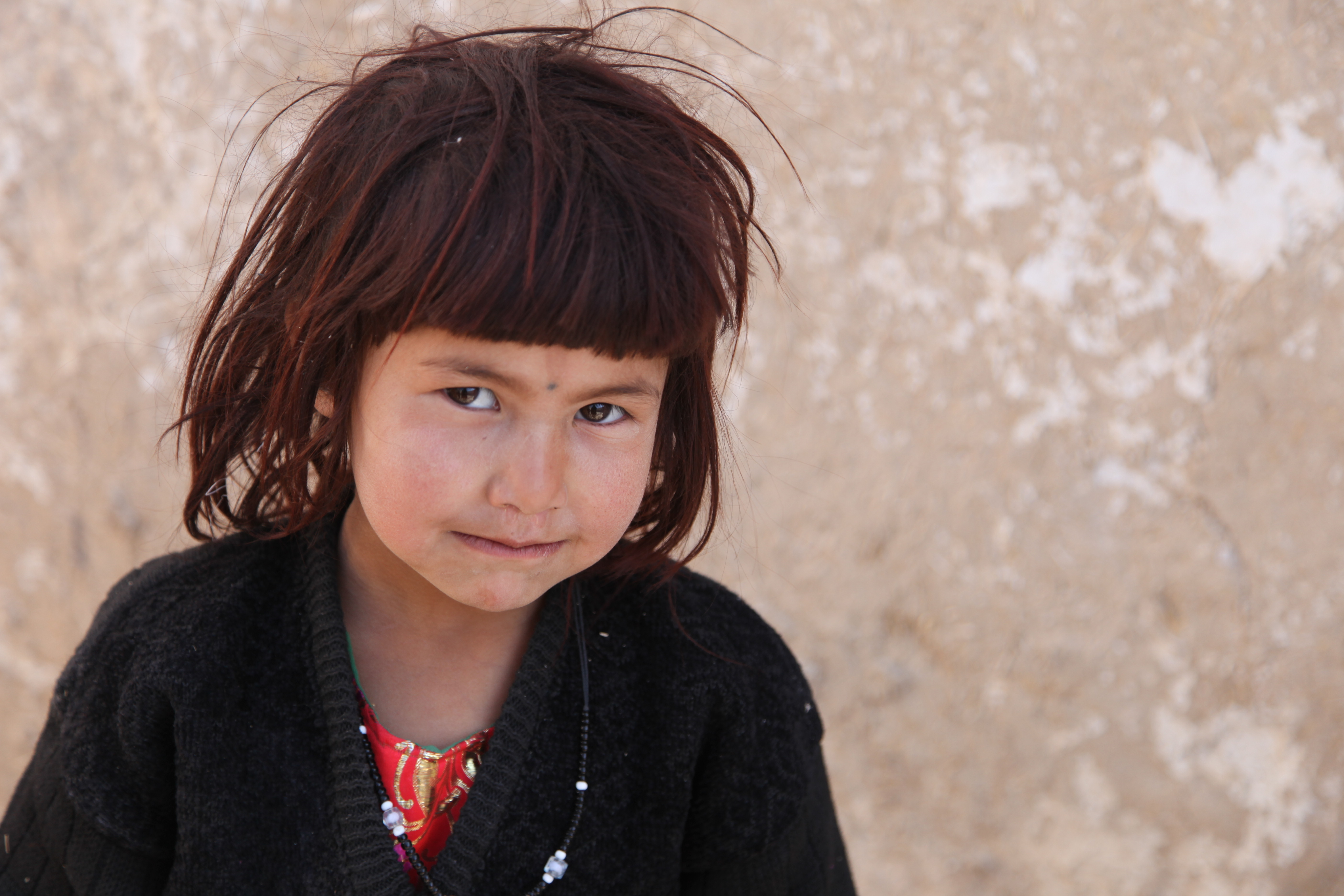 A young Afghan girl is pictured before the supplies were handed out, Qalat, Afghanistan, Dec. 8, 2011. Female Engagement Team soldiers from HHC, 116th Infantry Battalion accompanied by the Female Afghan Police discuss security options as well as hand out school supply to the children on site.